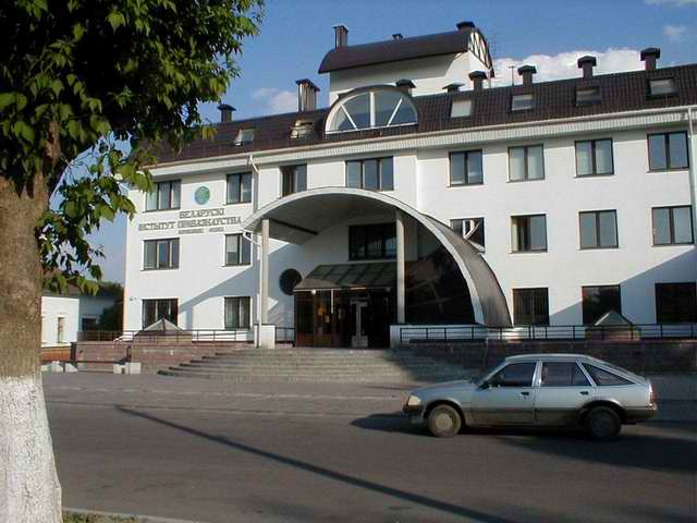 Former Baranovichi Law Institute, now part of Baranovichi State University. Photo by Igor Mostitsky. 31 May 2003